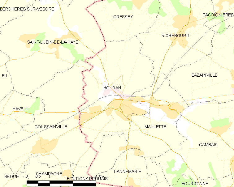 Map of French municipality Houdan